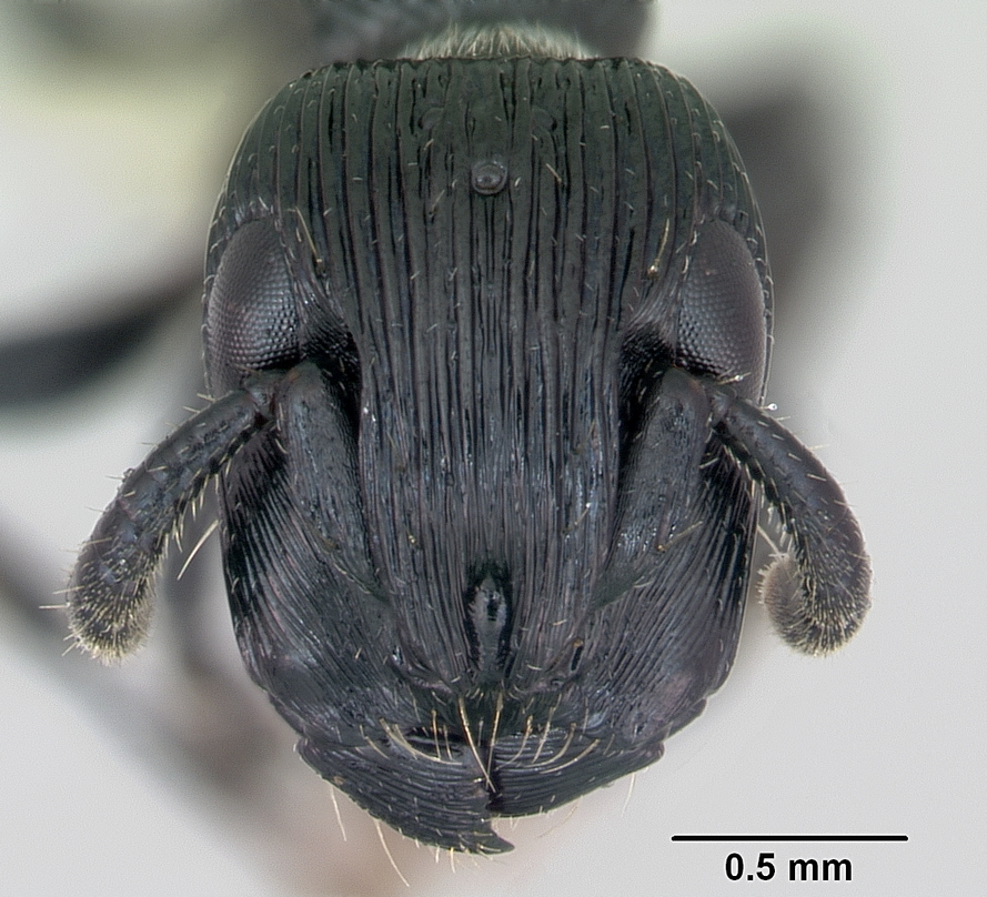 Head view of ant Cylindromyrmex whymperi specimen casent0173212.